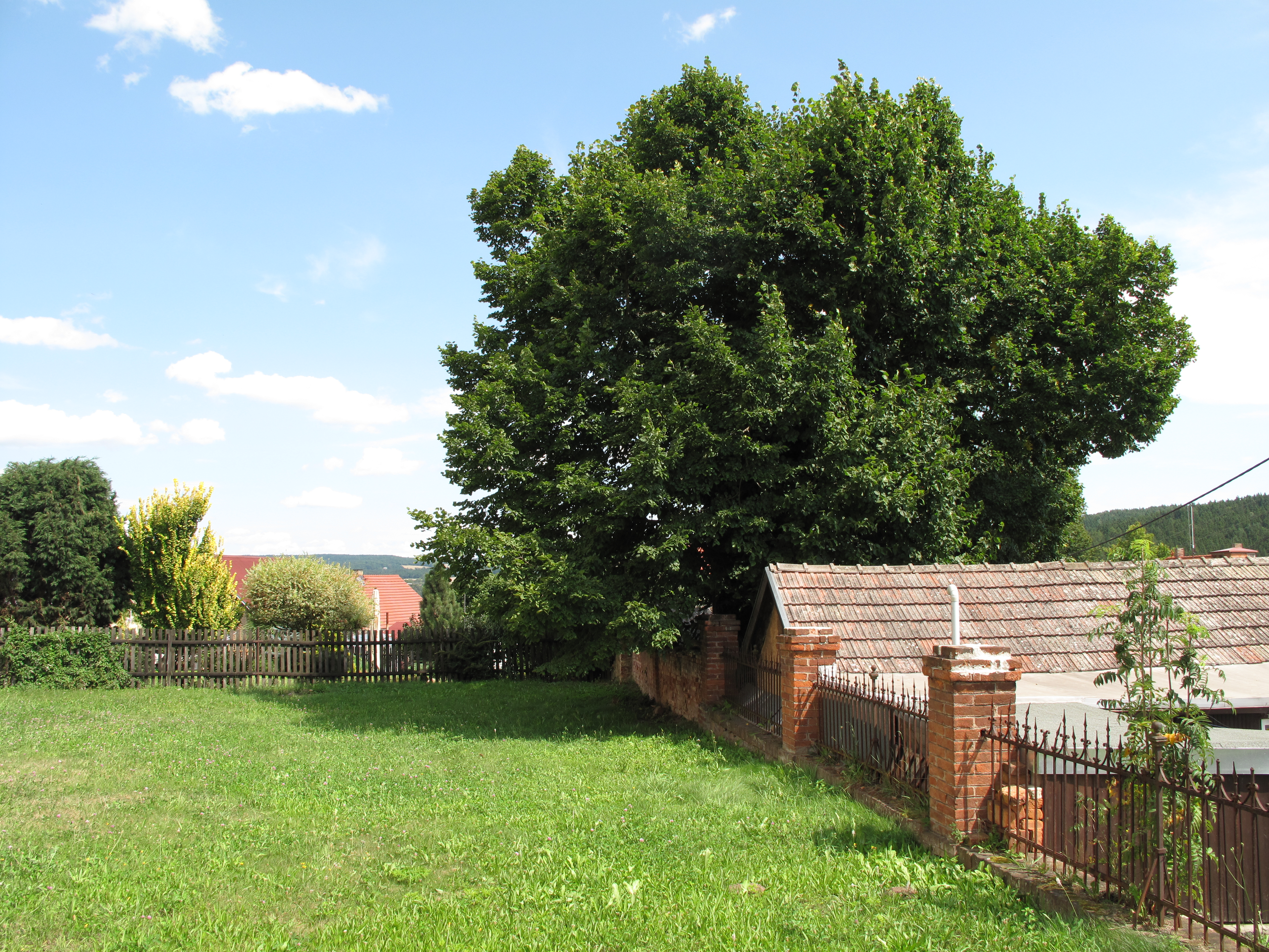 Memmorial linden tree (Tilia sp.) in Drahoňův Újezd, Rokycany District, Czech Republic.